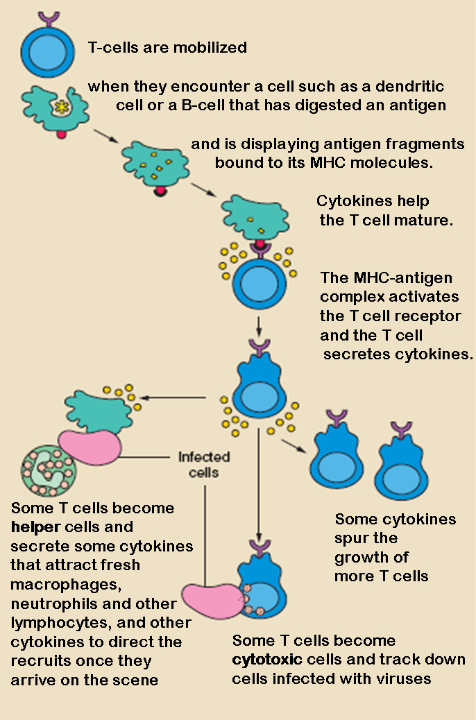 The T lymphocyte activation pathway is triggered when a T cell encounters its cognate antigen, coupled to a MHC molecule, on the surface of an infected cell or a phagocyte. T cells contribute to immune defenses in two major ways: some direct and regulate immune responses; others directly attack infected or cancerous cells.